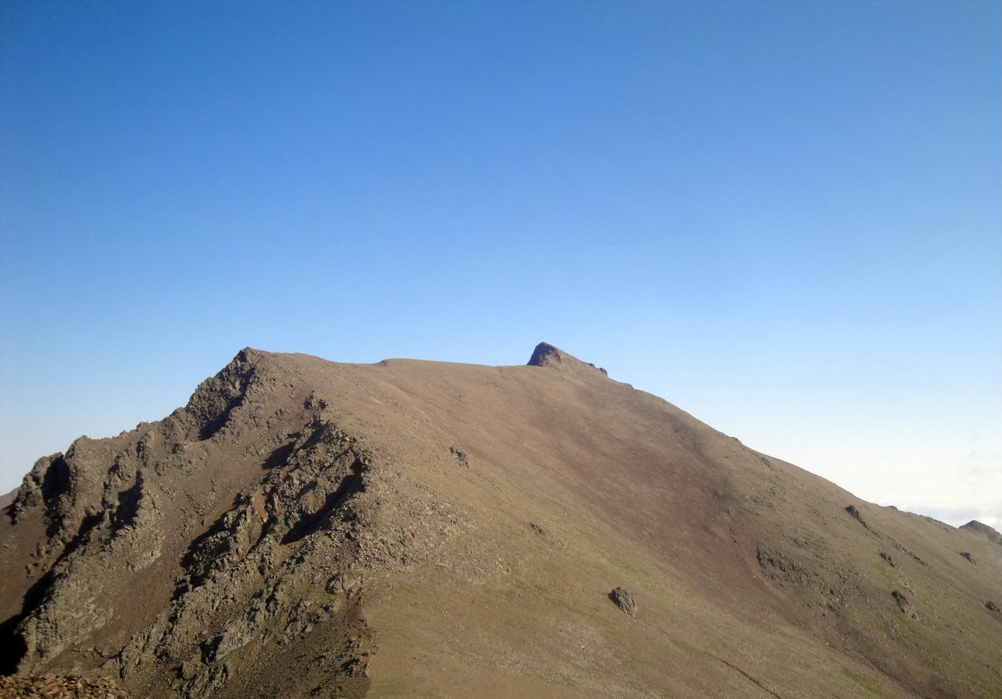 Mount Gyamish or Gomshasar